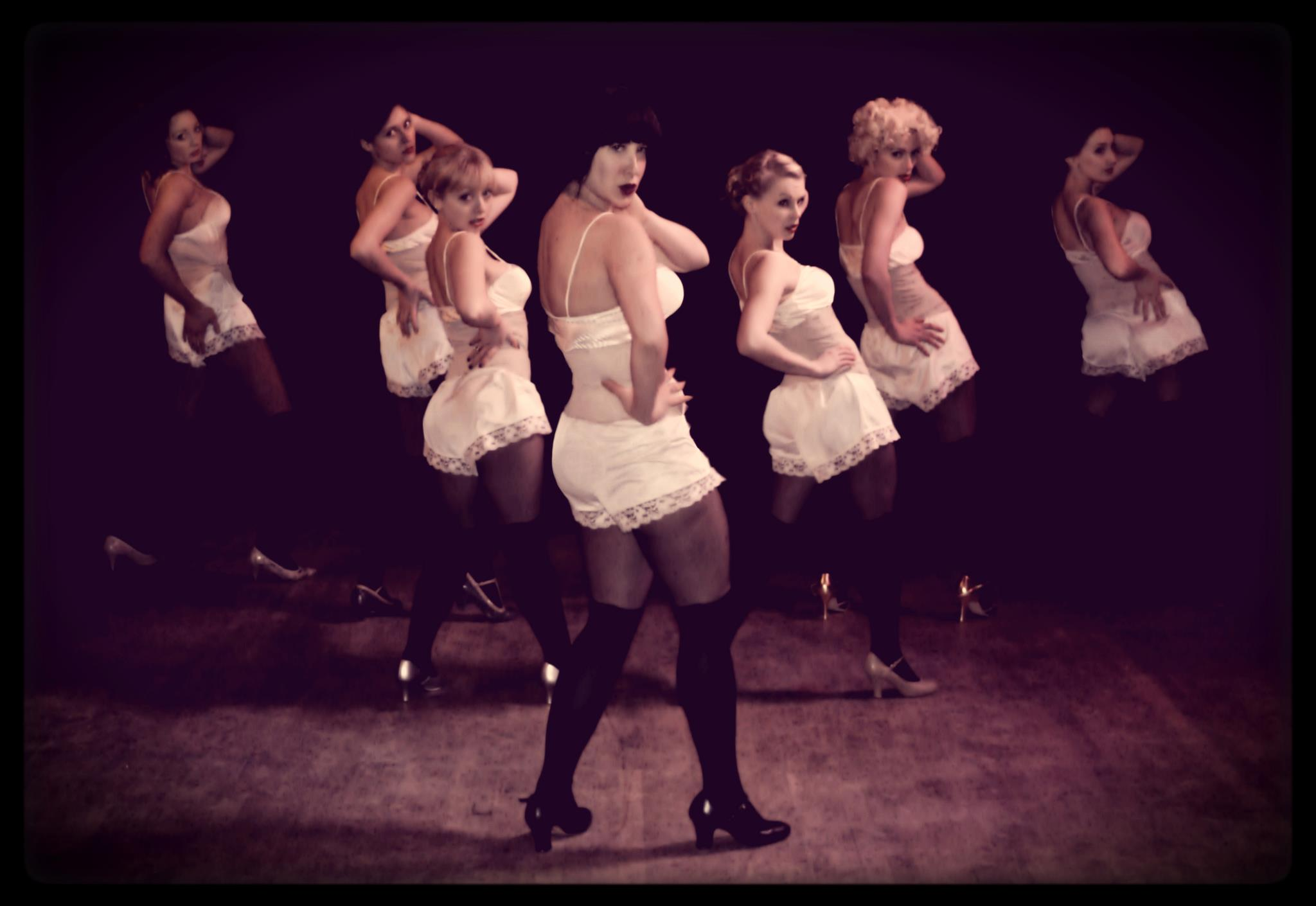 Halbwelt Kultur performance at New Wimbledon Studio